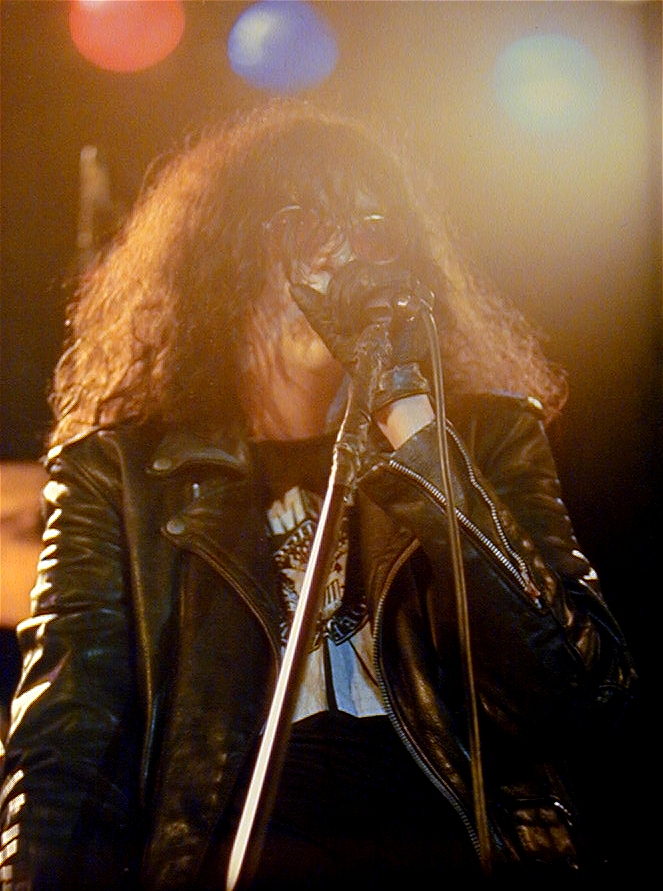 Joey Ramone in Glassboro, New Jersey